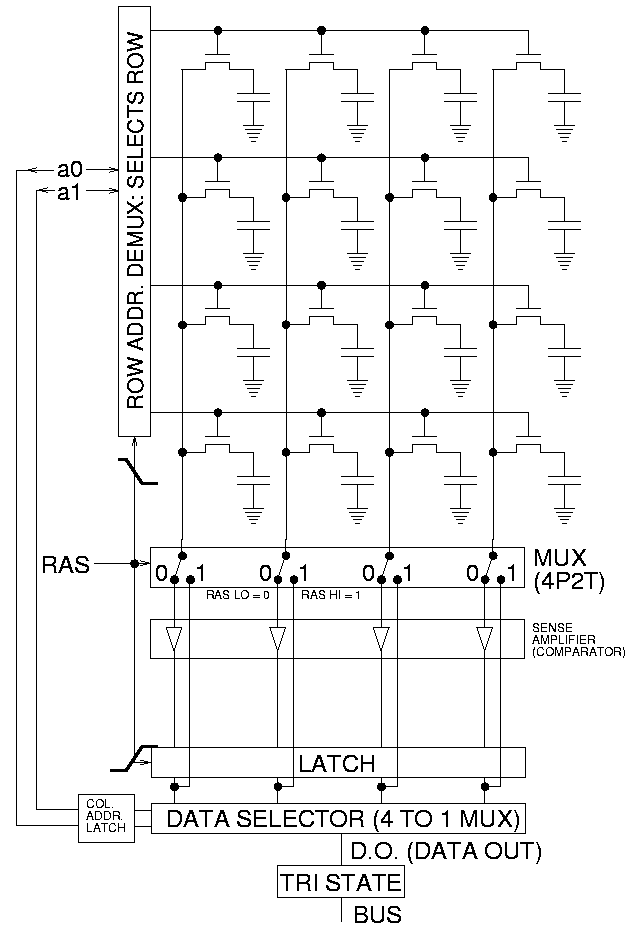 DRAM ece385 illustrative example. I drew this with idraw for my ECE385 course, to illustrate how DRAM (Dynamic random access memory) works, with simple 4 by 4 array.